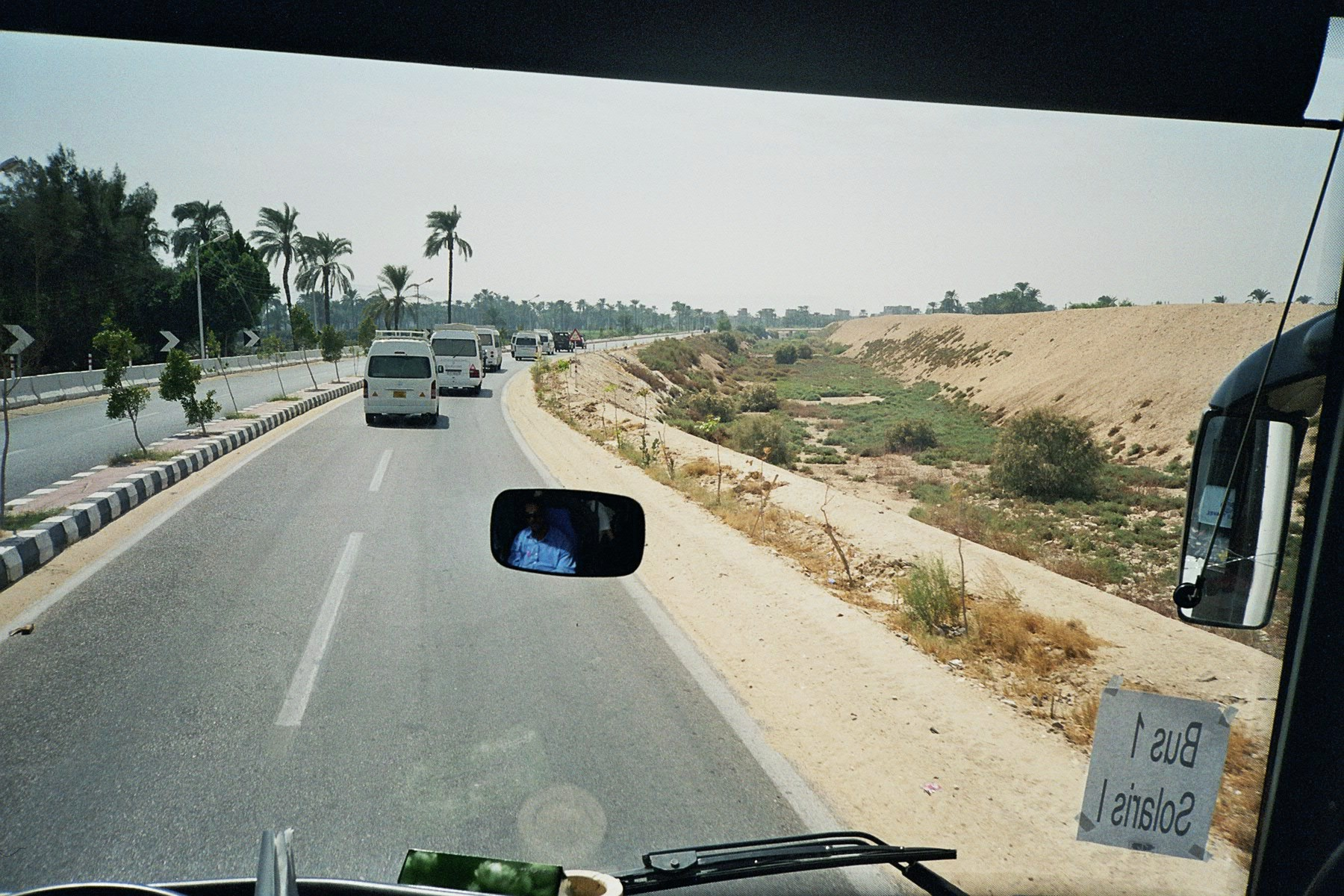 Egypt Convoy.